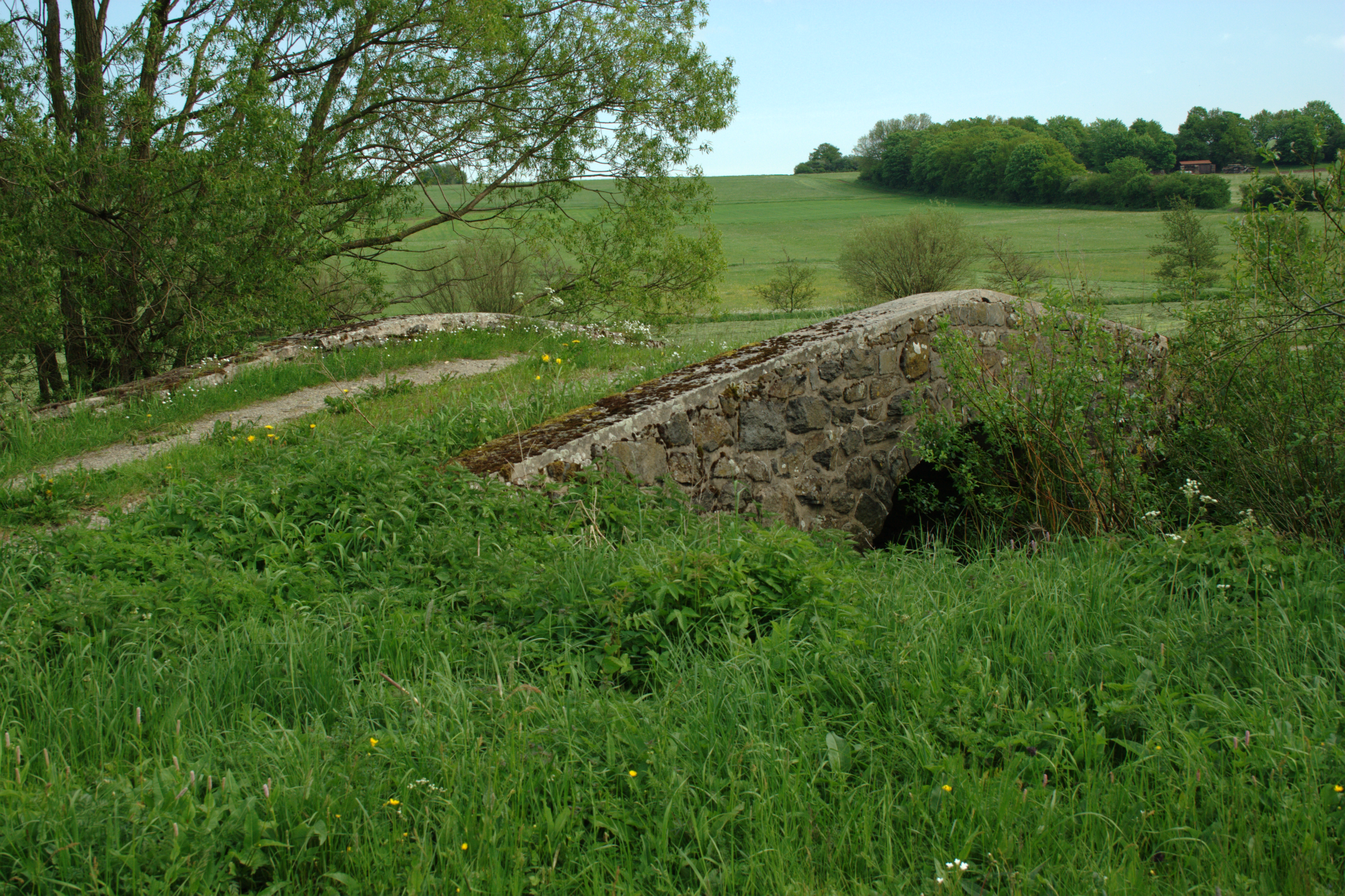 historic disseler bridge near Ilbeshausen-Hochwaldhausen, Hesse, Germany